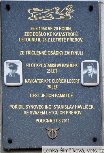 Poličná, Vsetín District, Czech Republic.